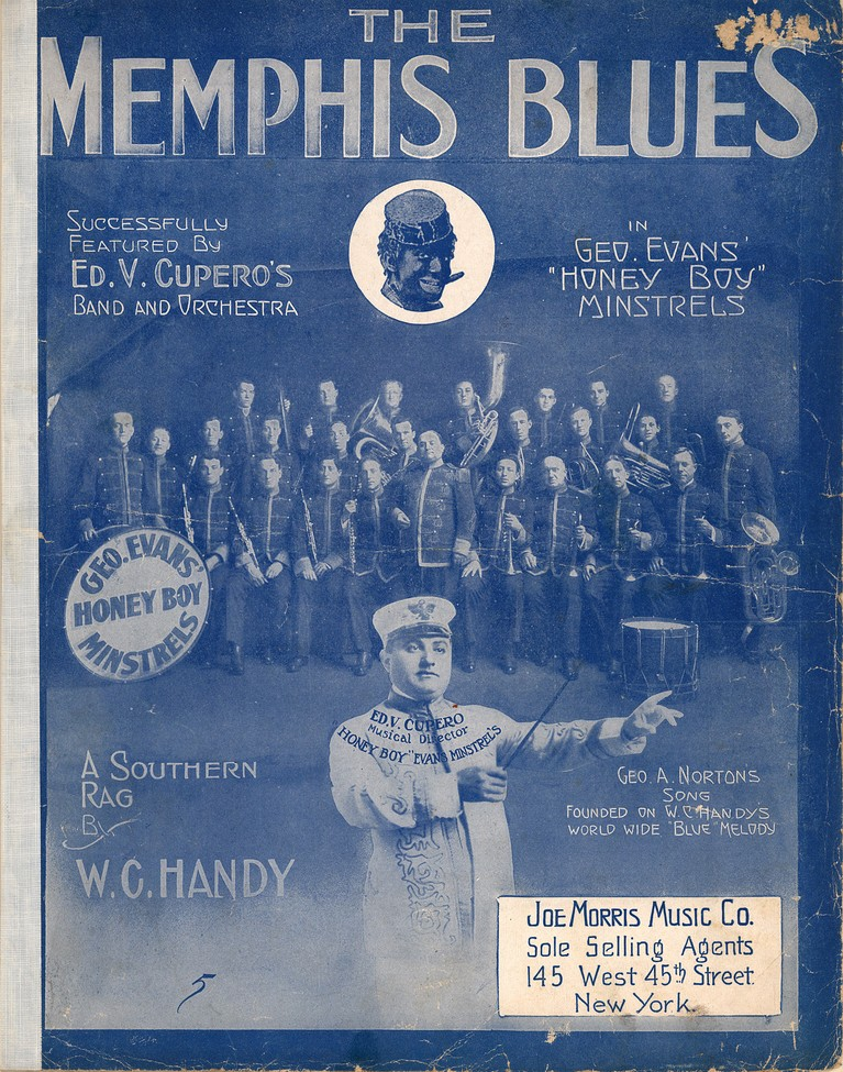 1913 sheet music cover for "The Memphis Blues: A Southern Rag by W.C. Handy", with illustration "Successfully featured by Ed. V. Cupero's Band and Orchestra in George Evans' "Honey Boy" Minstrels". Insert photo shows Evans in blackface. Composer: W.C. Handy Lyricist: George A. Norton Performer: George Evans' "Honey Boy" Minstrels, Ed. V. Cupero Publisher: Theron C. Bennett